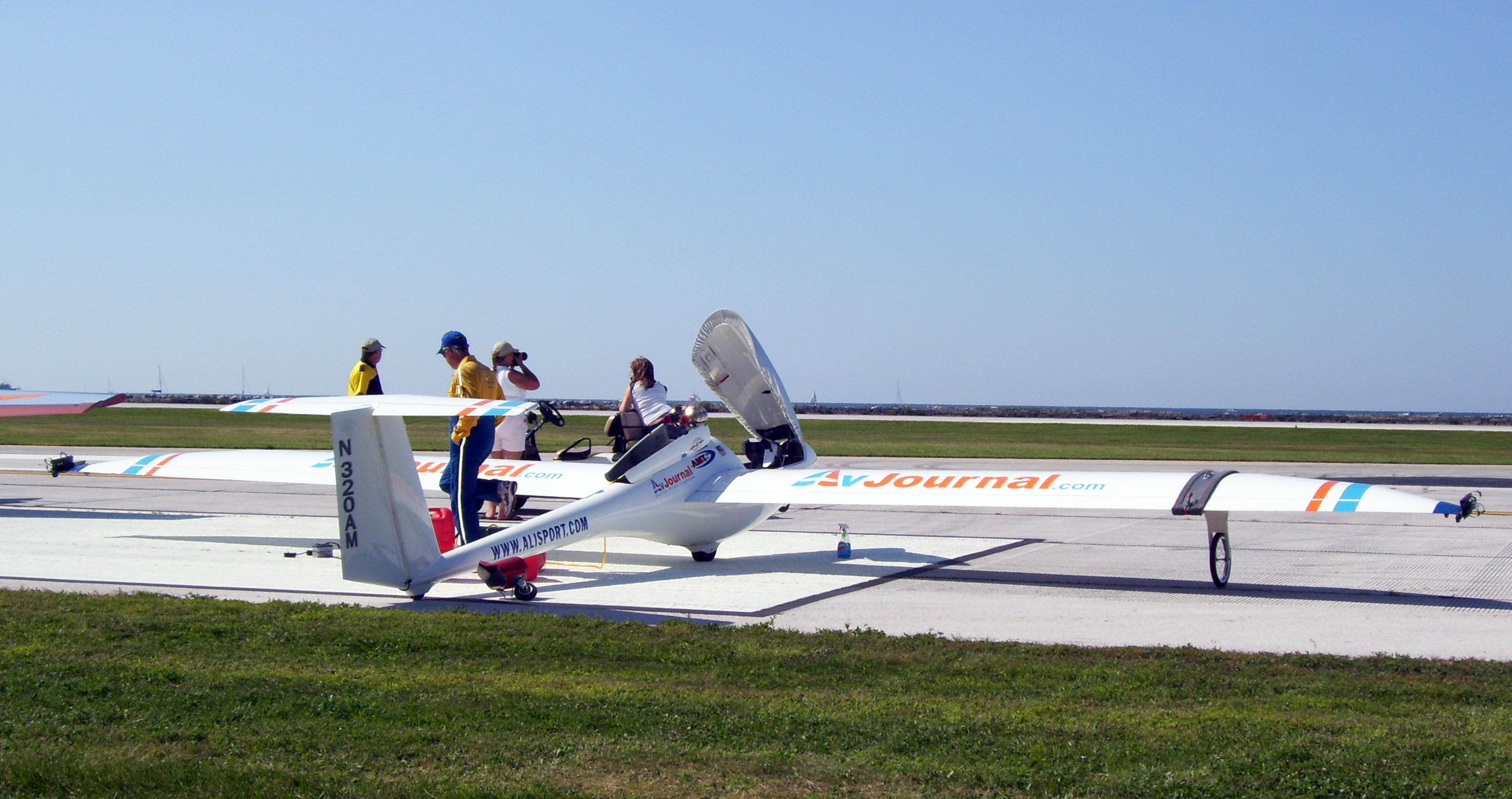 Bob Carlton's Alisport Silent 1N jet powered glider, on the ground at the 2008 Cleveland National Air Show at Cleveland Burke Lakefront Airport